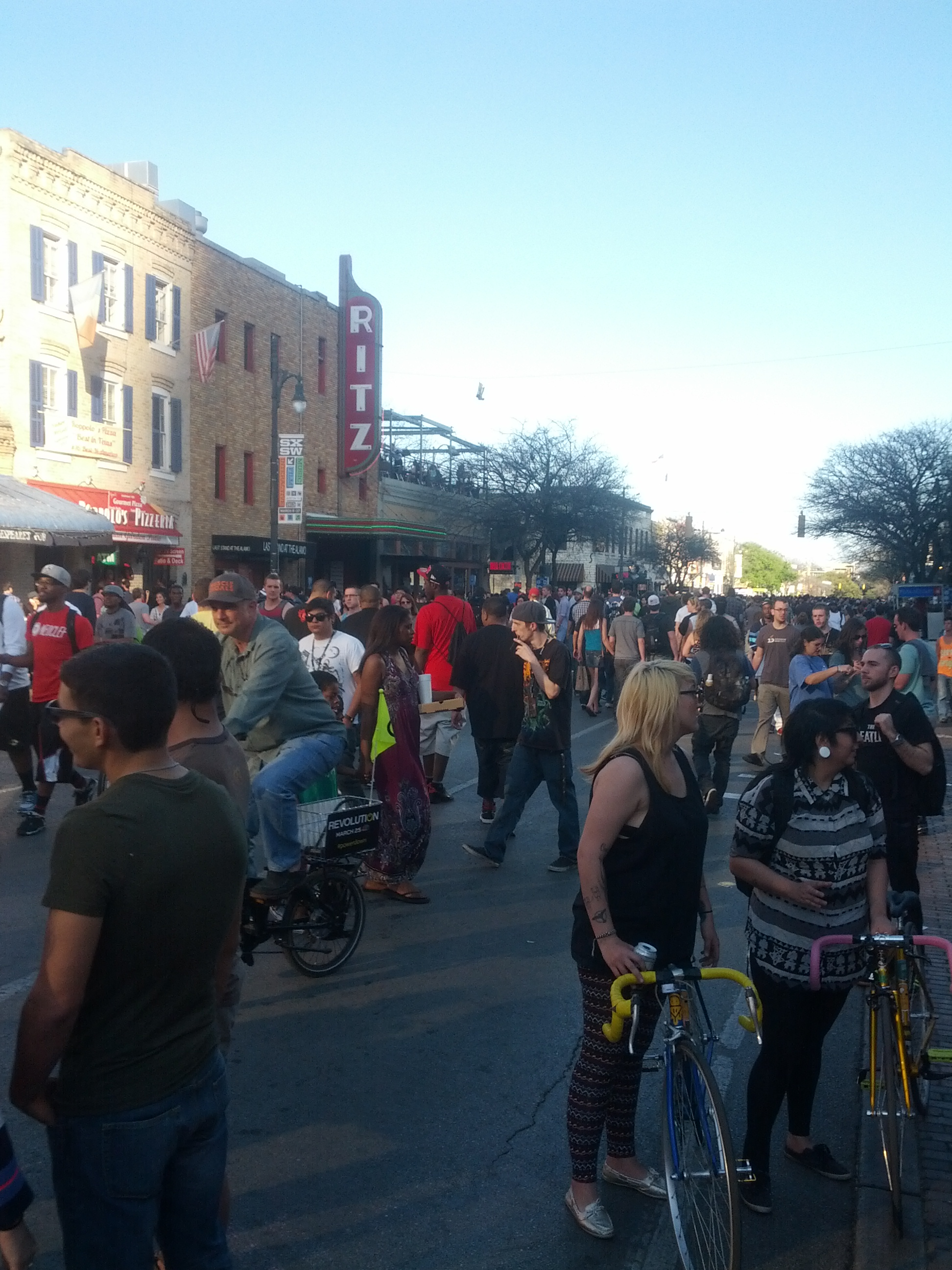 6th street sxsw chaos